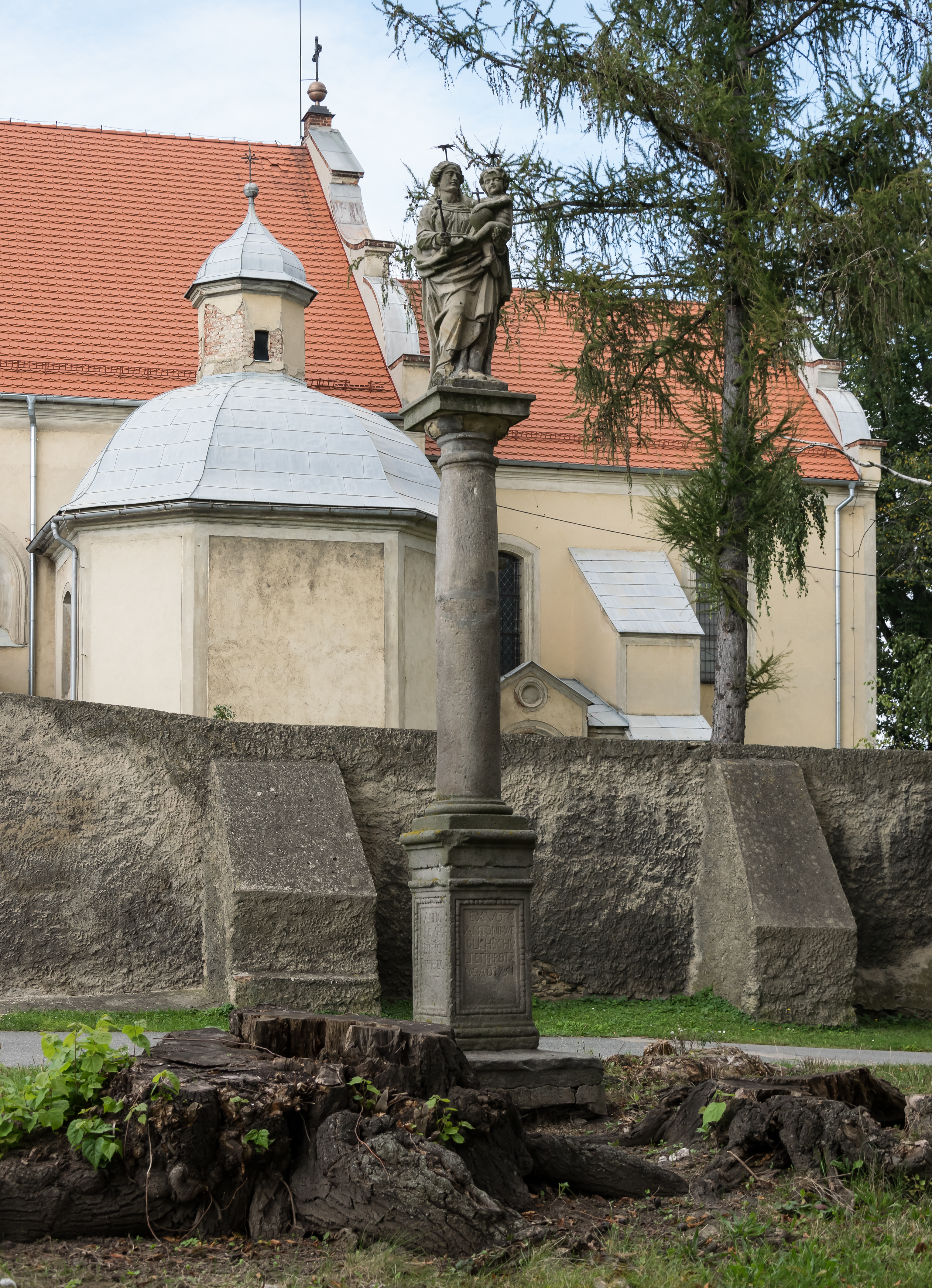 Saints Peter and Paul church in Zwrócona